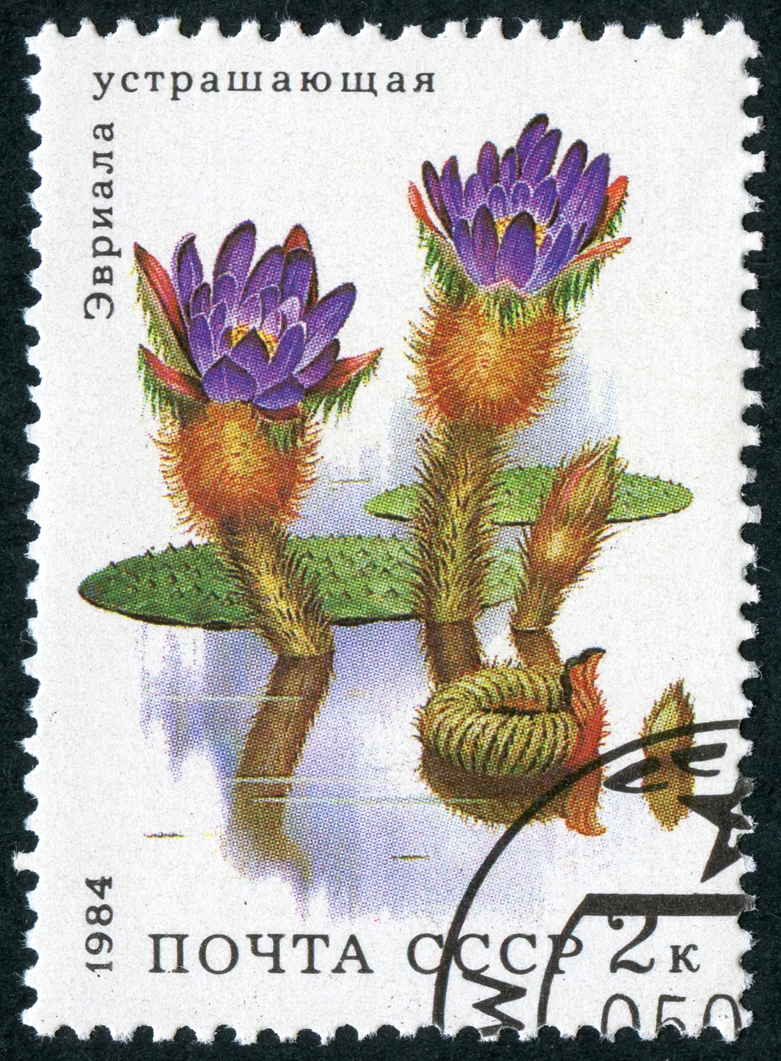 A USSR stamp